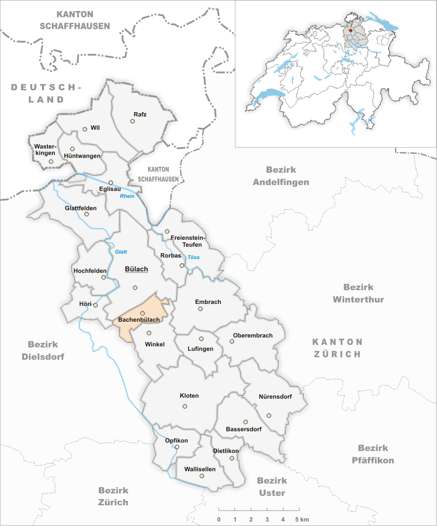 Municipality Bachenbülach